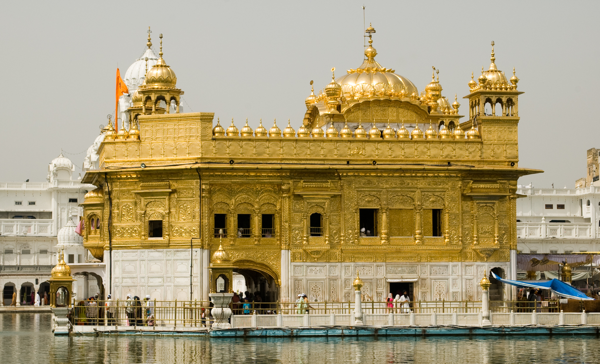 Close-up of the Harmandir Sahib, or Golden temple, in Amritsar, Punjab.